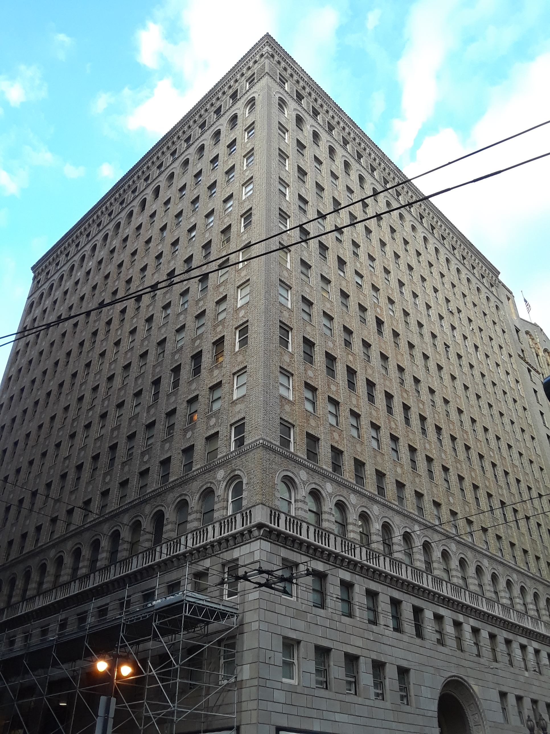 390 Post Street, San Francisco, USA.